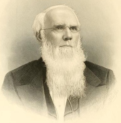 Richard Pratt Marvin, Congressman from New York